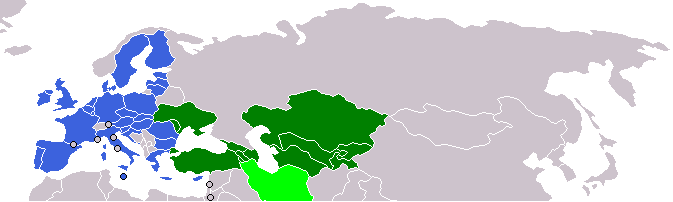 Blue - EU; dark green - TRACECA participating; light green - agreement signed, but not yet participating